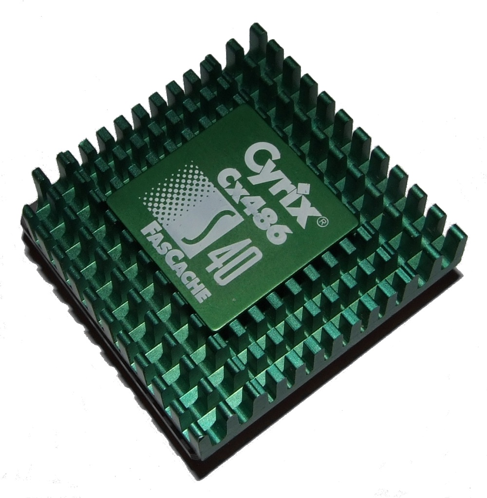 CPU Cyrix Cx486S, 40 MHz